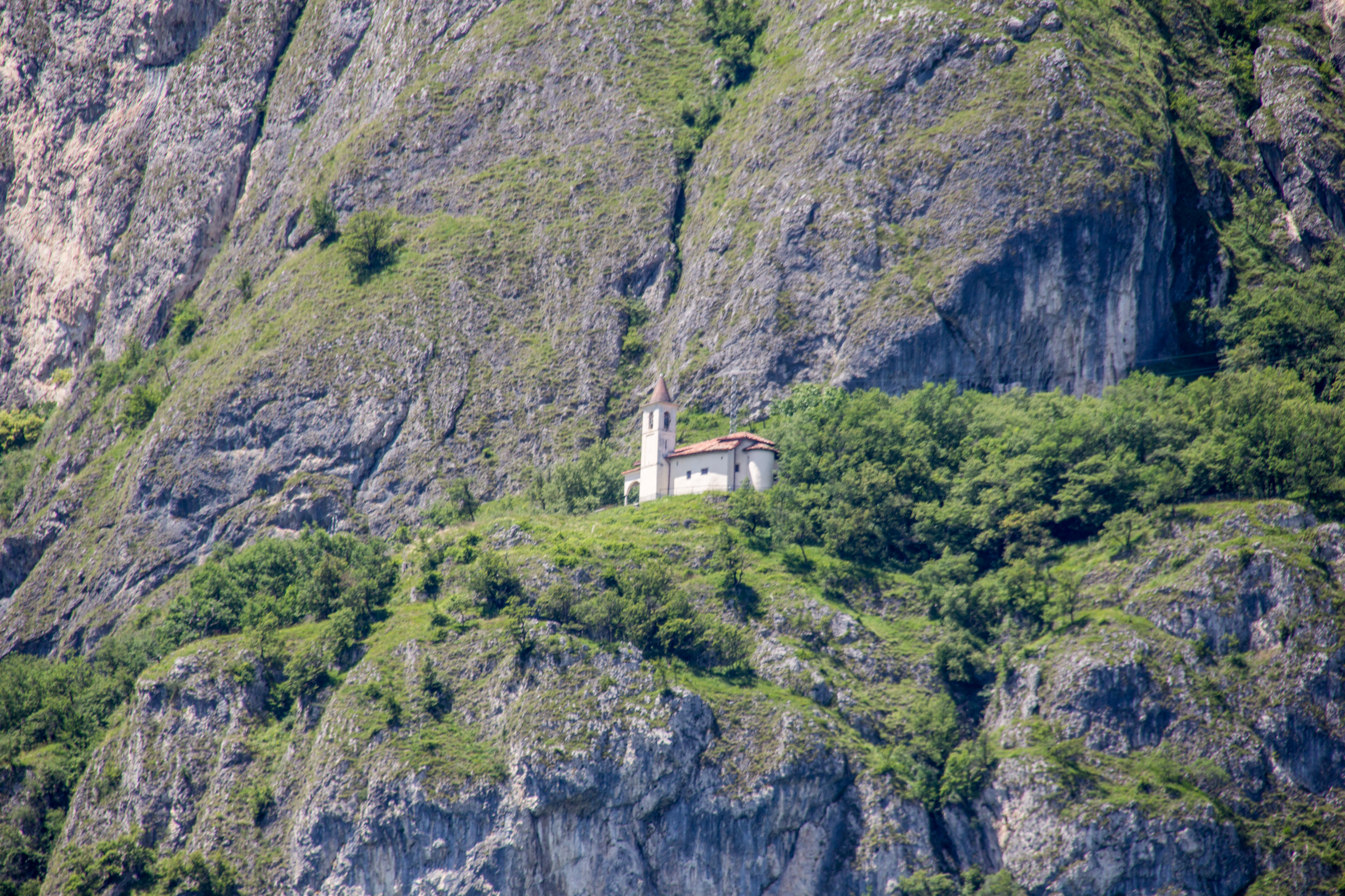 Lake Como. Wikimania 2016, Esino Lario, Italy